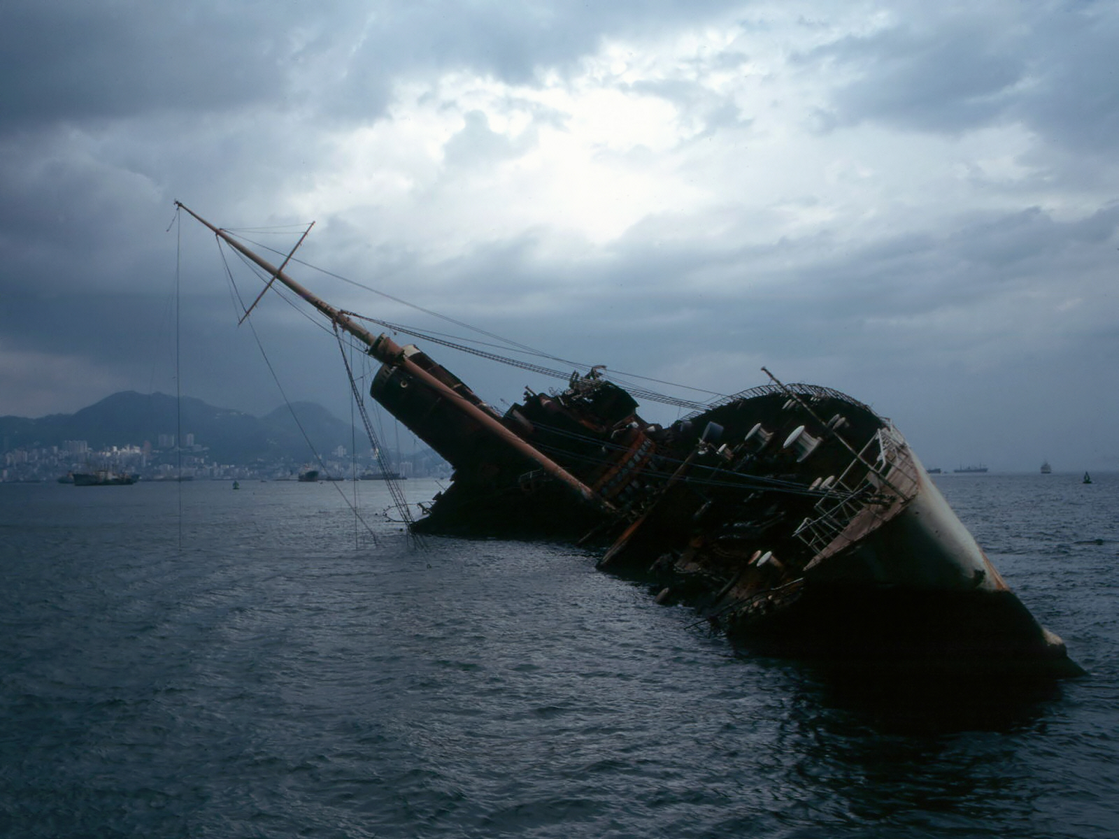 RMS Queen Elizabeth in Victoria Harbour (Hong Kong), photo taken July 1972 by Barry Loigman, M.D. (reworked by smial)